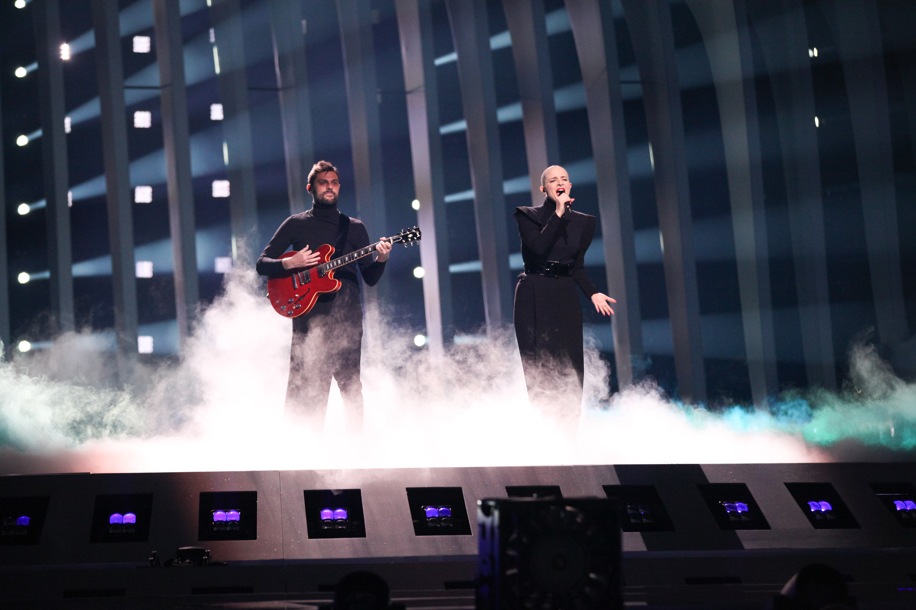 Madame Monsieur representing France with the song "Mercy" during a rehearsal before the second semi final of the Eurovision Song Contest 2018 in Lisbon.